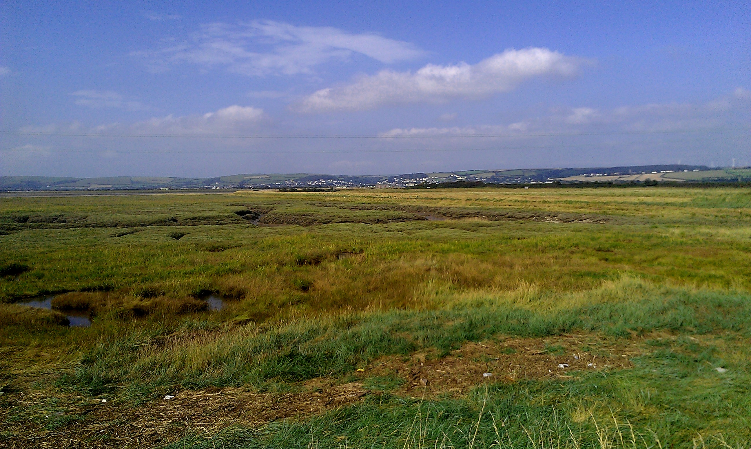 The location of the Yelland Stone Rows south of Yelland, Devon.